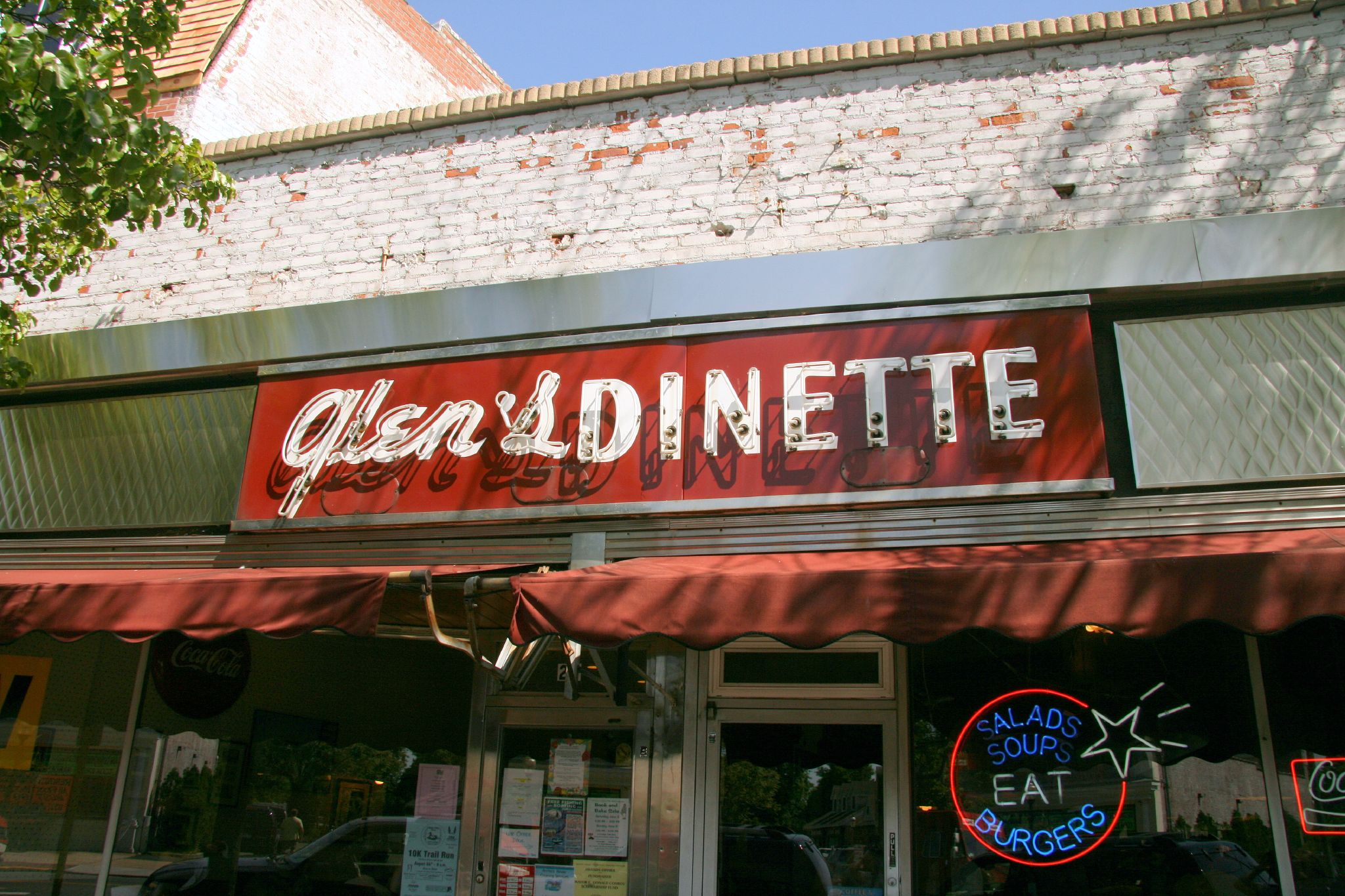 Sign for Glen's Dinette in Babylon Village